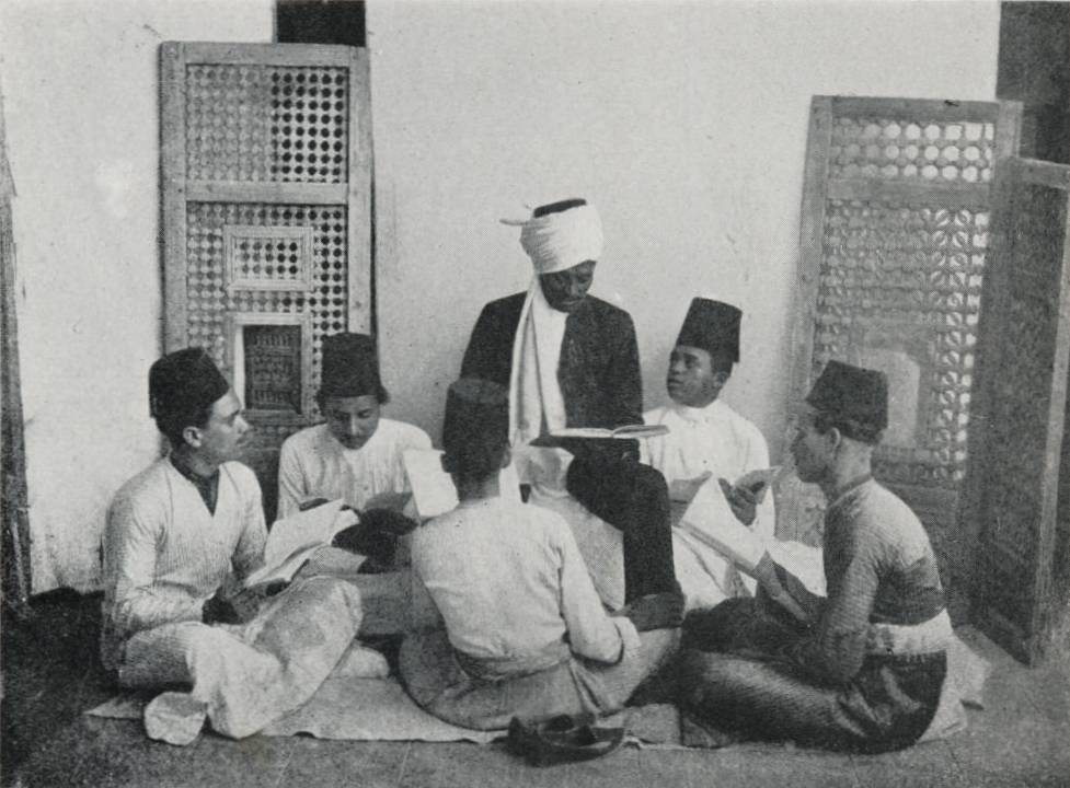 Five young men sit clustered closely around an older man while they read from books.